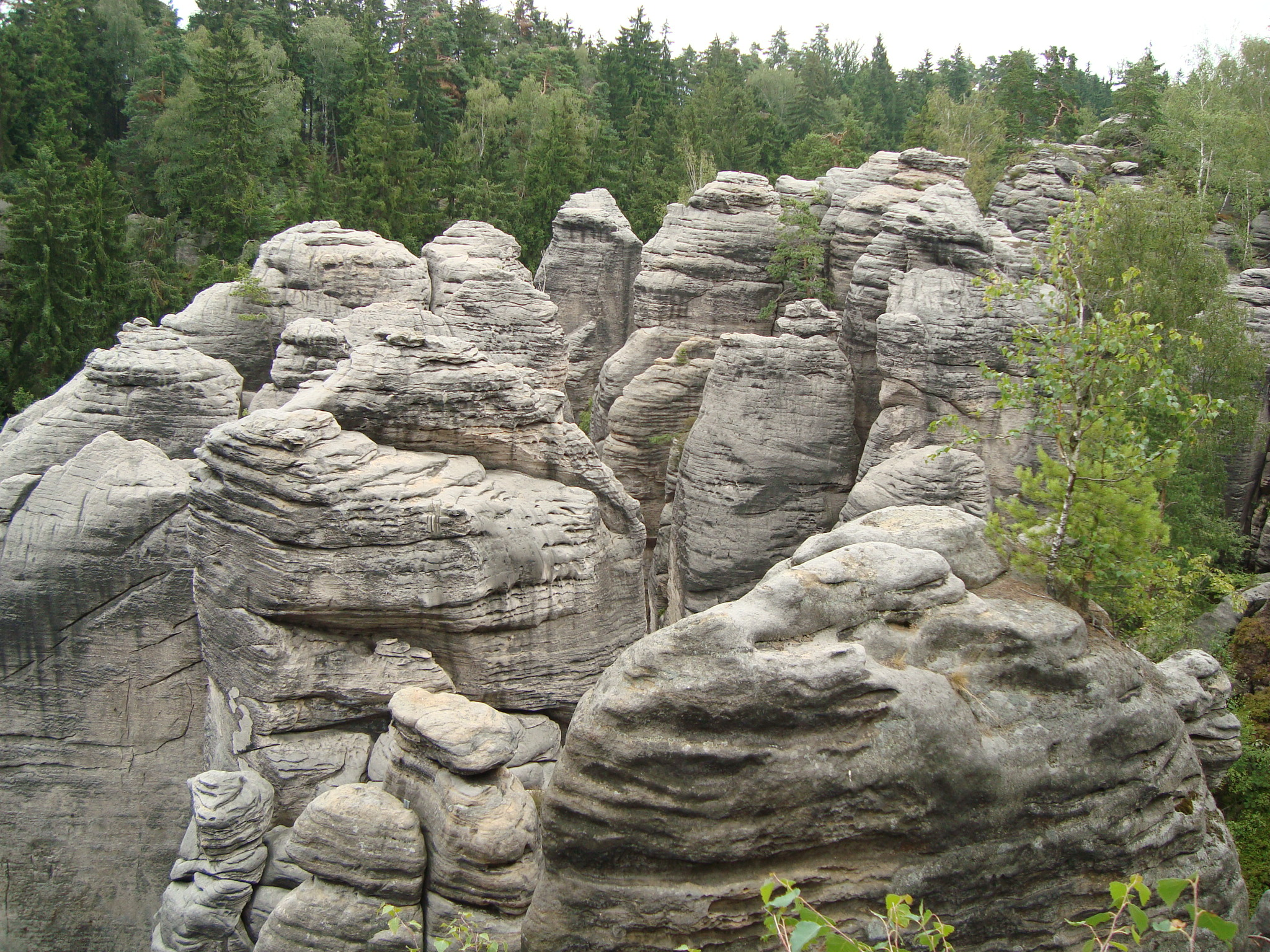 Prachov Rocks in the Czech Republic